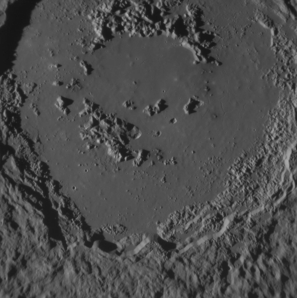 Alver crater on Mercury. MESSENGER Narrow Angle Camera. North is at top. Emission Angle: 2.0 Incidence Angle: 78.8 Latitude: -66.5 Longitude: 76.5 Phase Angle: 80.6